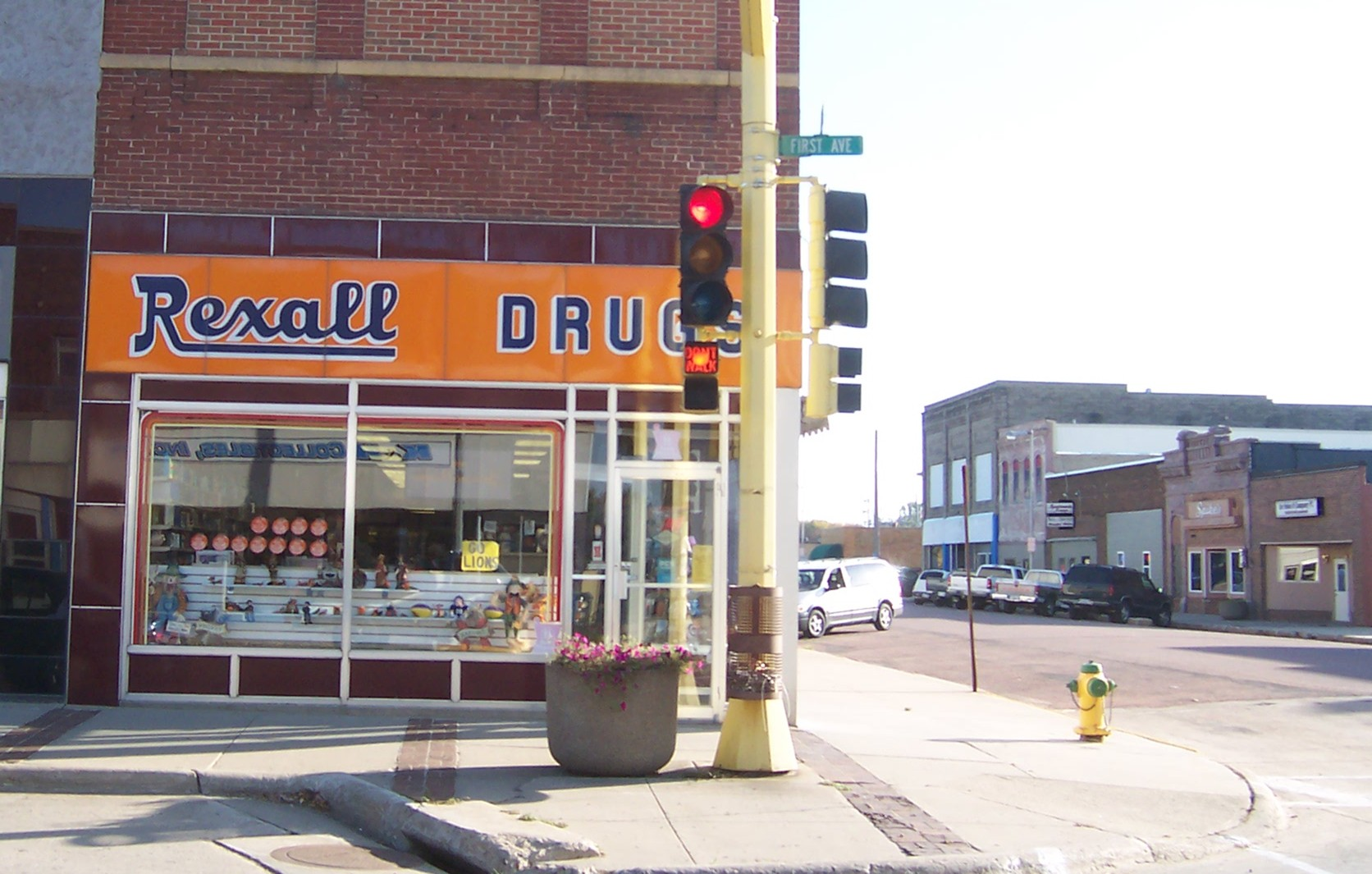 Former Rexall Drug Store Hills Minnesota (2006).